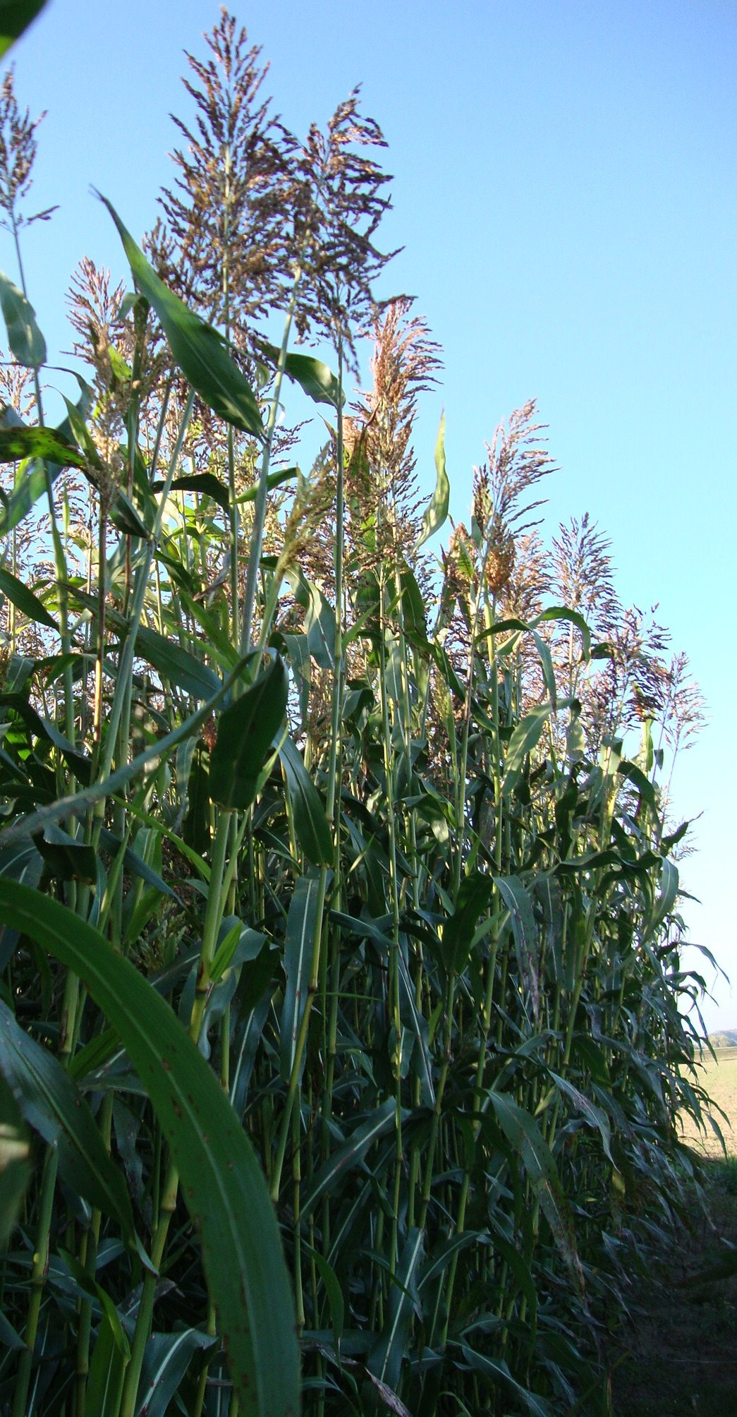 Sudan grass,[Sorghum bicolor (L.) Moench nothosubsp. drummondii (Steud.) de Wet ex Davidse]domesticated cultivar of Sorghum bicolor(L.)Moench grown for livestock fodder